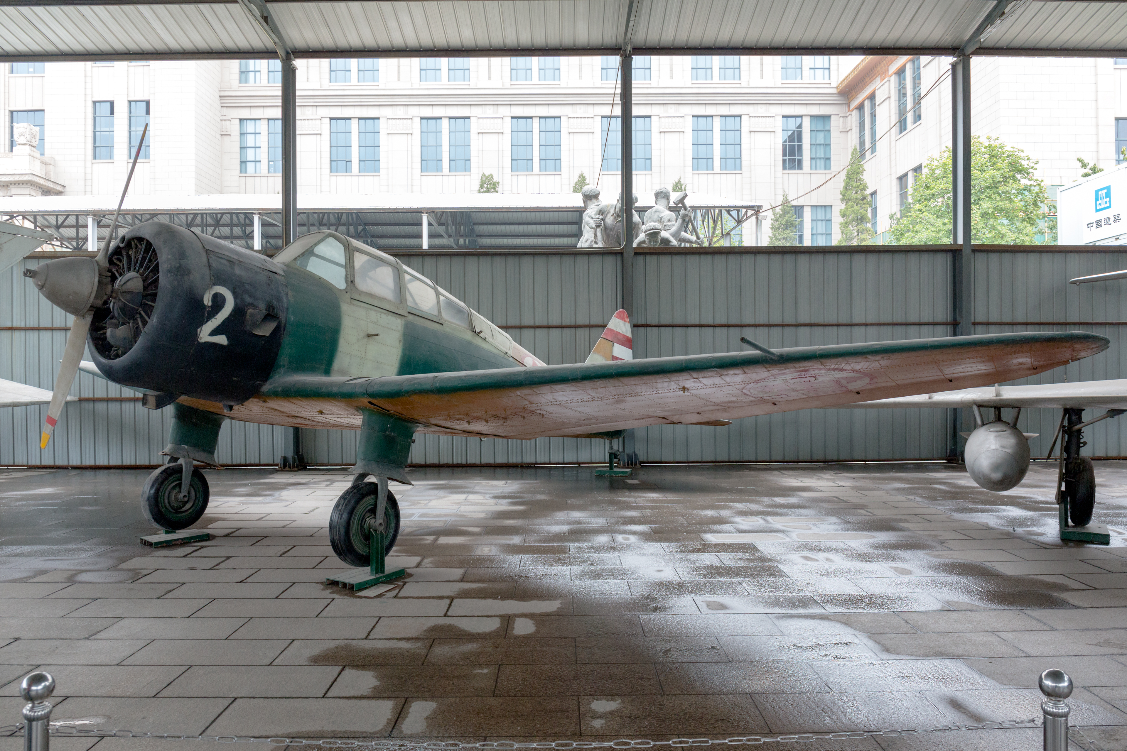 Tachikawa Ki-55